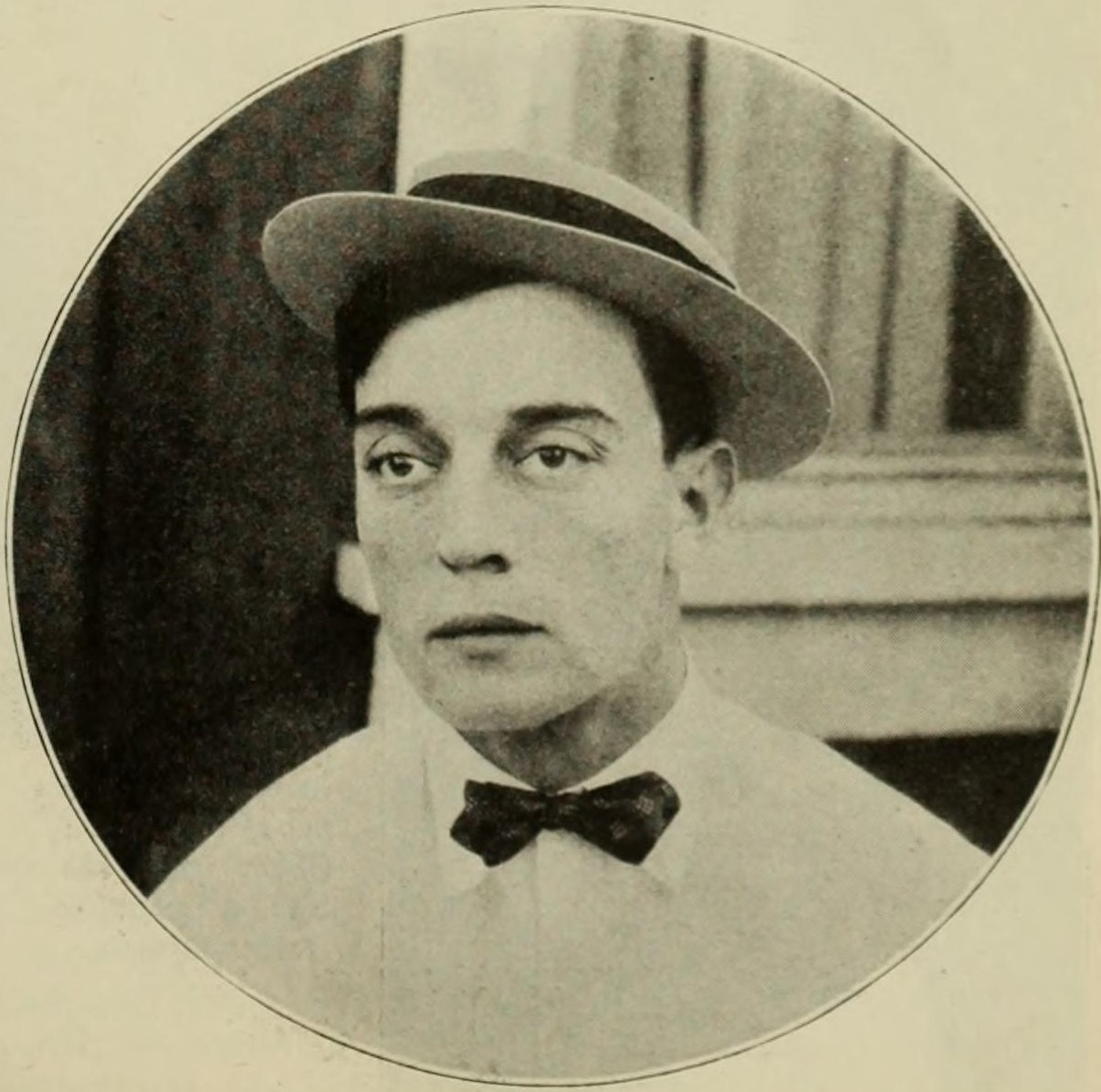 Buster Keaton in Photoplay, December 1924